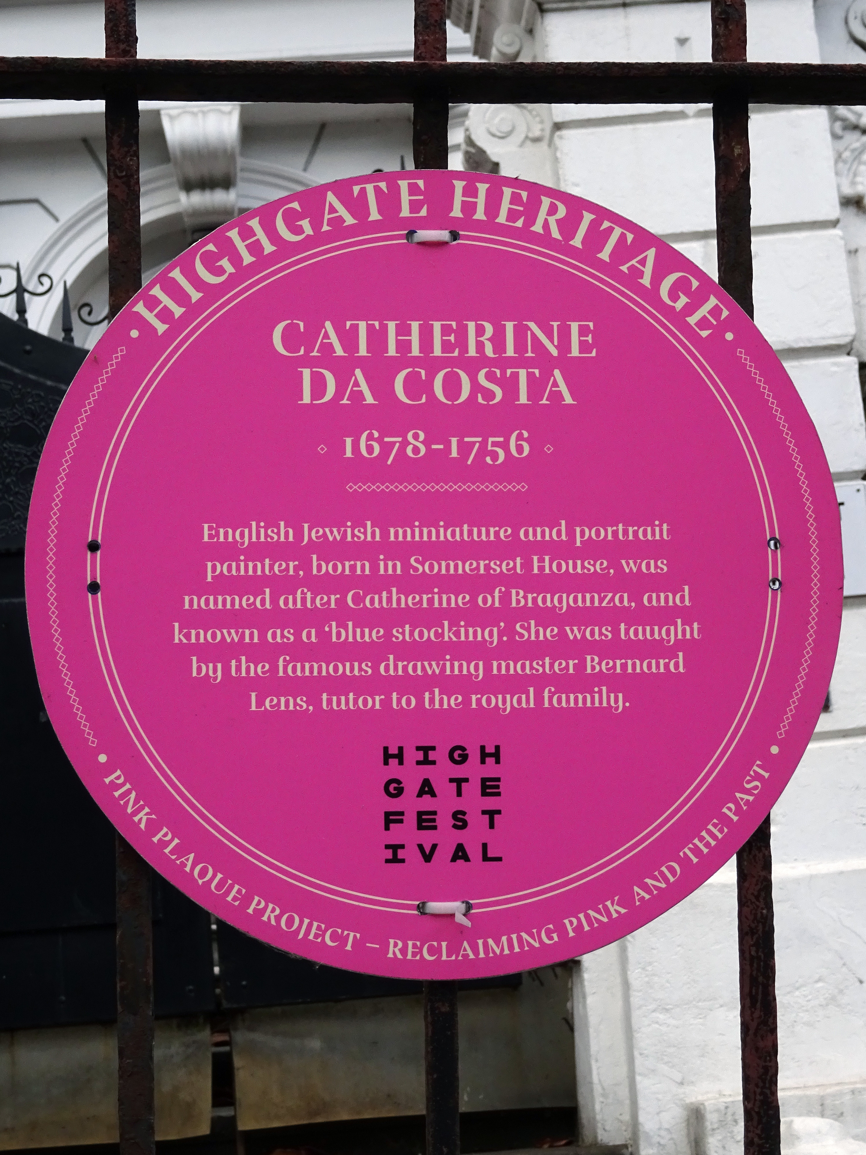 Catherine Da Costa 1678-1756 Highgate Heritage Pink Plaque. Erected in 2019 for the Highgate Festival, the plaque is temporary.